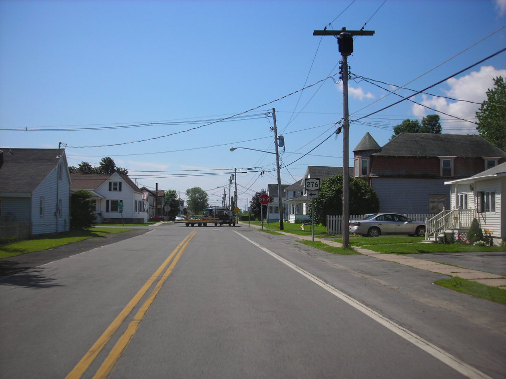 Eastbound on New York State Route 276 at the junction of Church and Pratt Streets in Rouses Point. NY 276 eastbound turns left onto Pratt Street at the intersection, as indicated by the sign assembly to the right.